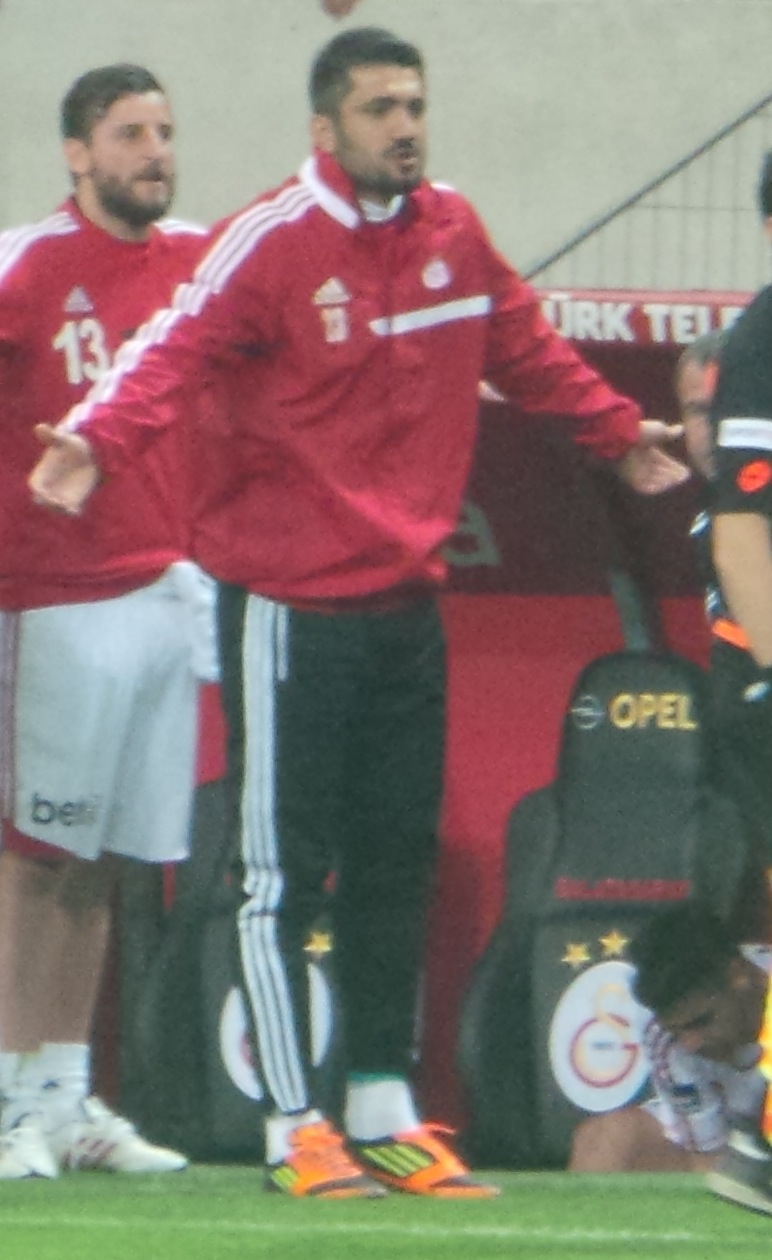 Nihat Şahin with Sivasspor